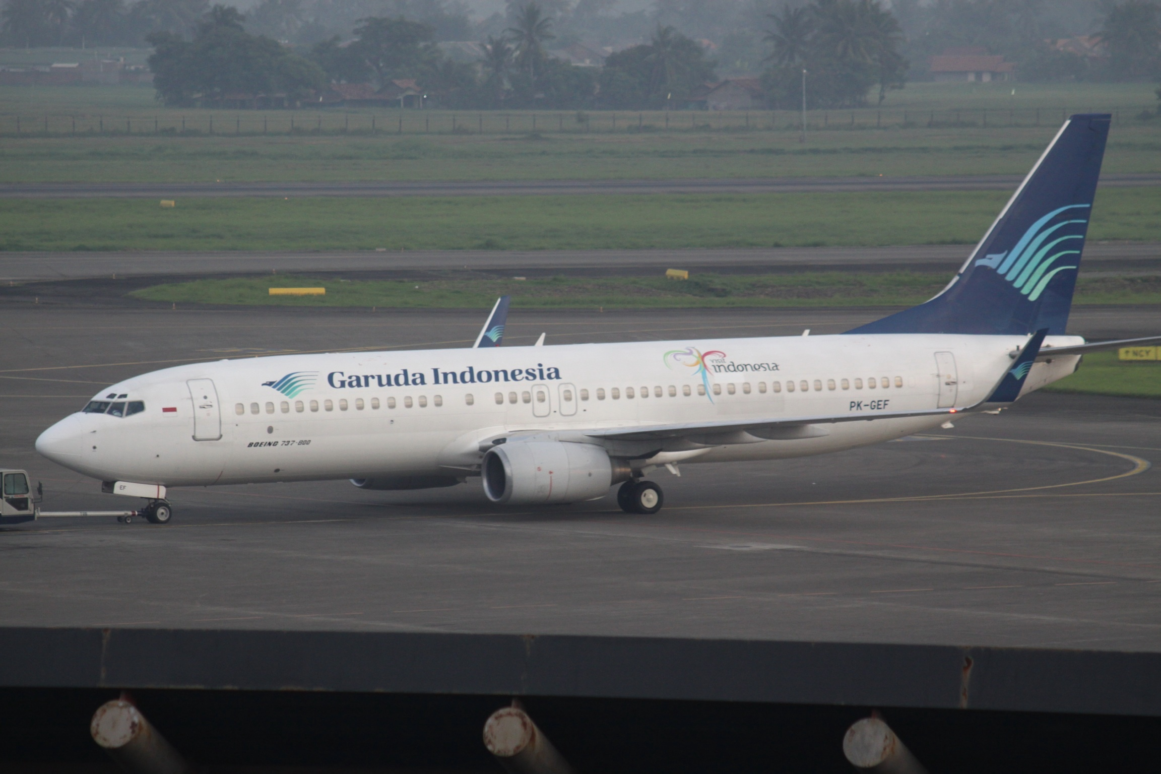 At Jakarta Soekarno-Hatta